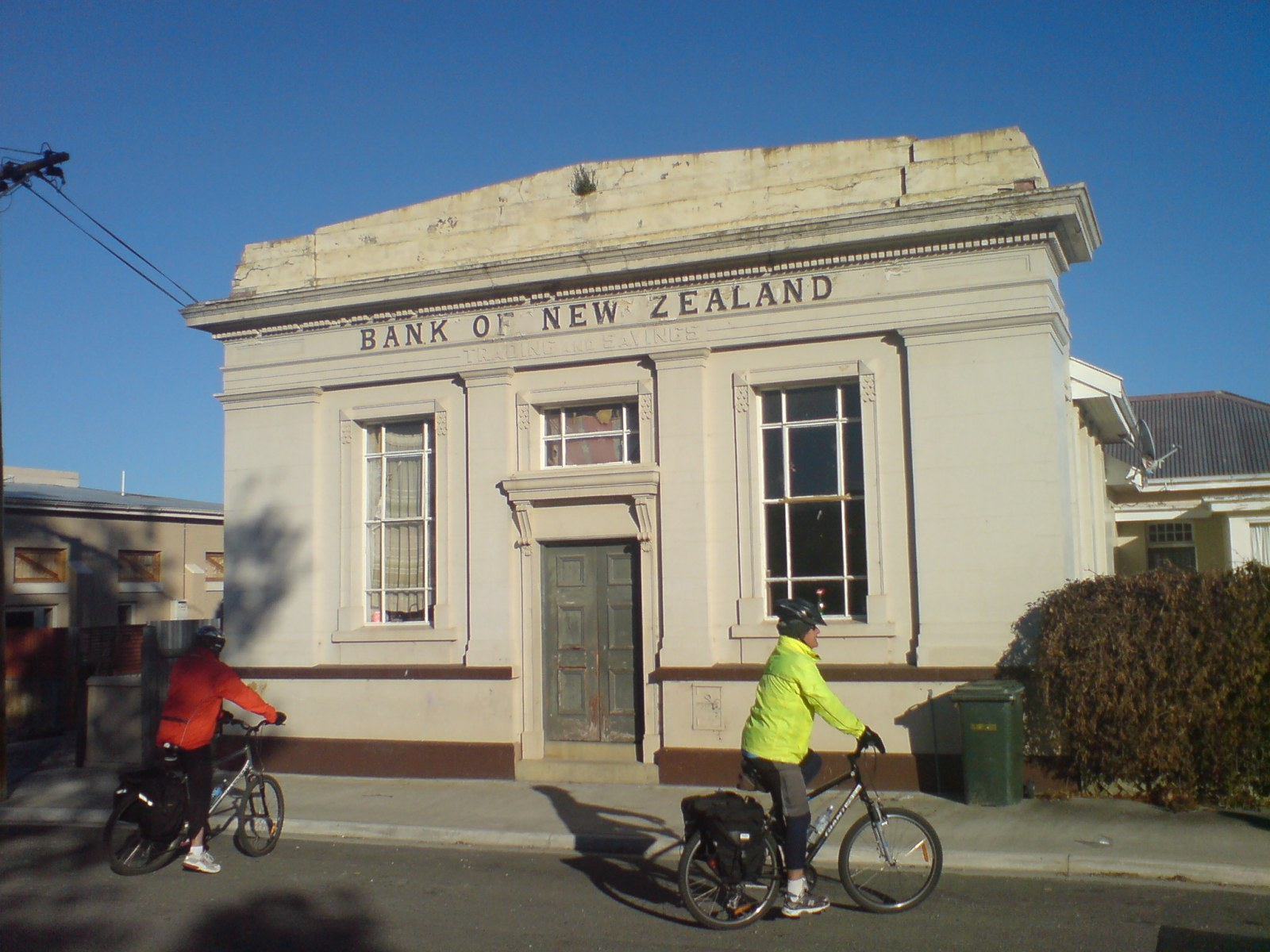 A building formerly of the Bank of New Zealand, in Omakau, New Zealand.